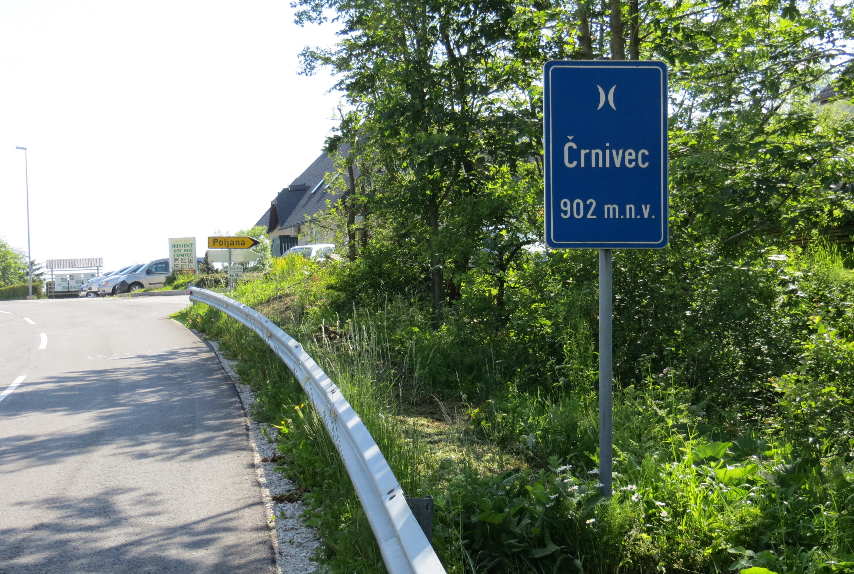 Črnivec Pass in Podlom, Municipality of Kamnik, Slovenia